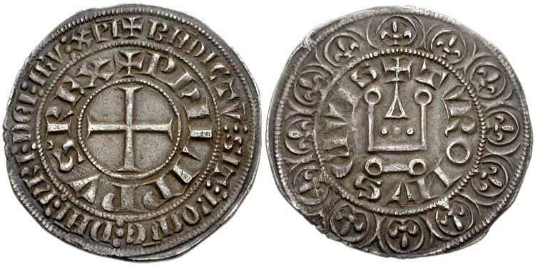 France, Royal. Philippe V, le Long (the Tall). 1316-1322. AR Gros Tournois (27mm, 3.97 g, 8h). Struck 1318. +PhILIPPVS REX ( crescent after S), cross pattée / Châtel tournois within border of lis. Duplessy 238; Lafaurie 242; Ciani 244